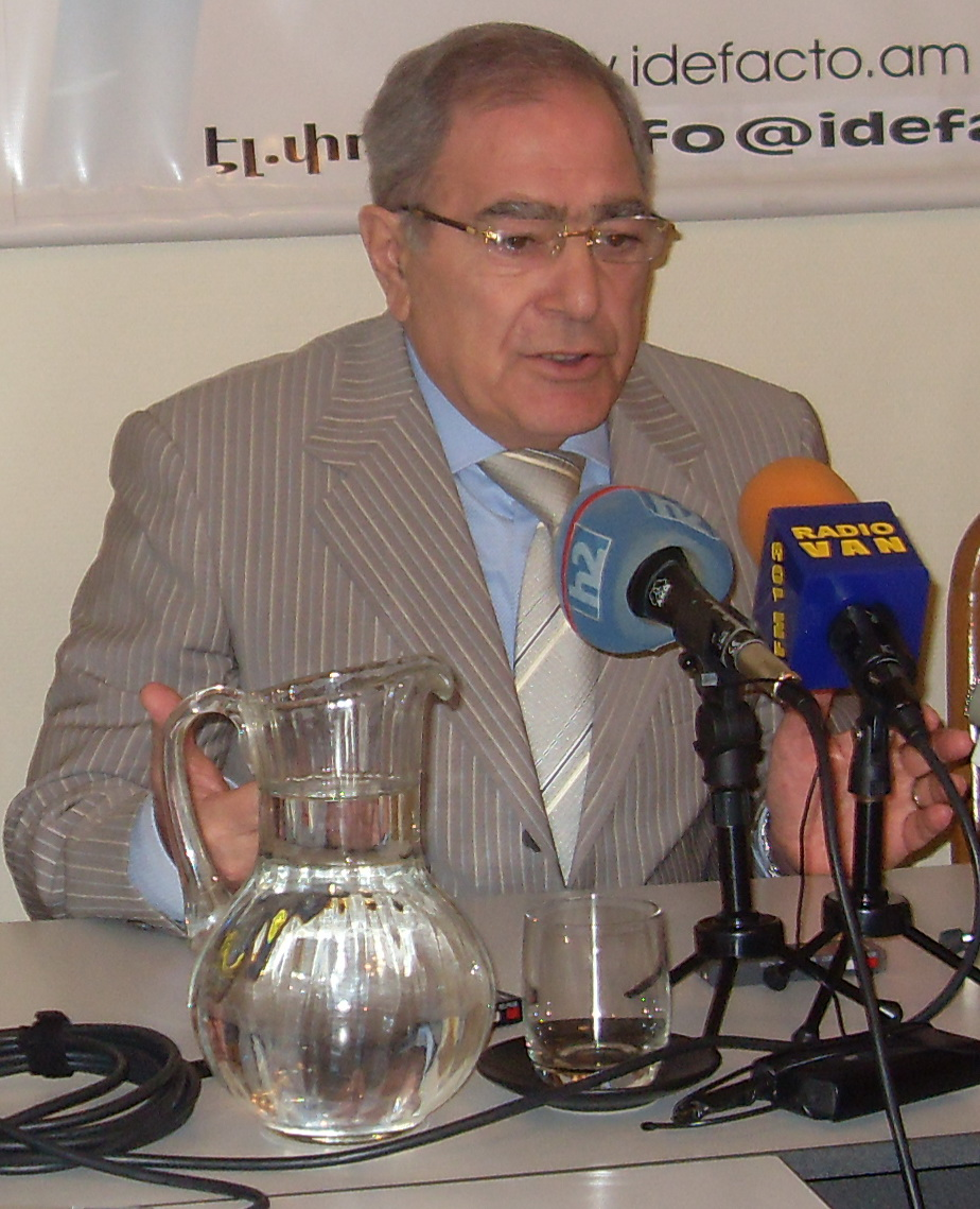 Tigran Karapetyan, armenian politician, leader of People party of Armenia